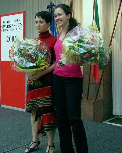 Elisabeth Pähtz und Irina Krush, Chess Days 2006 at Dortmund